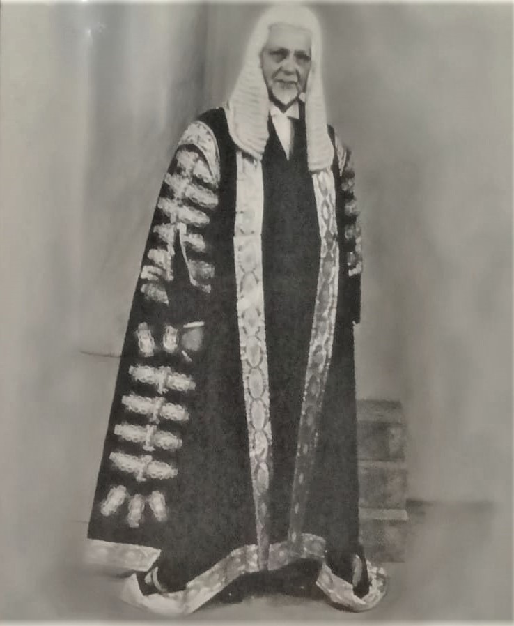 This photograph was provided by the family of Sir Abdur Rahman (deceased). It shows him joining the Supreme Court of Pakistan. Sir Abdur Rahman was previously the delegate of the United Nations Special Commission on Palestine in 1947.